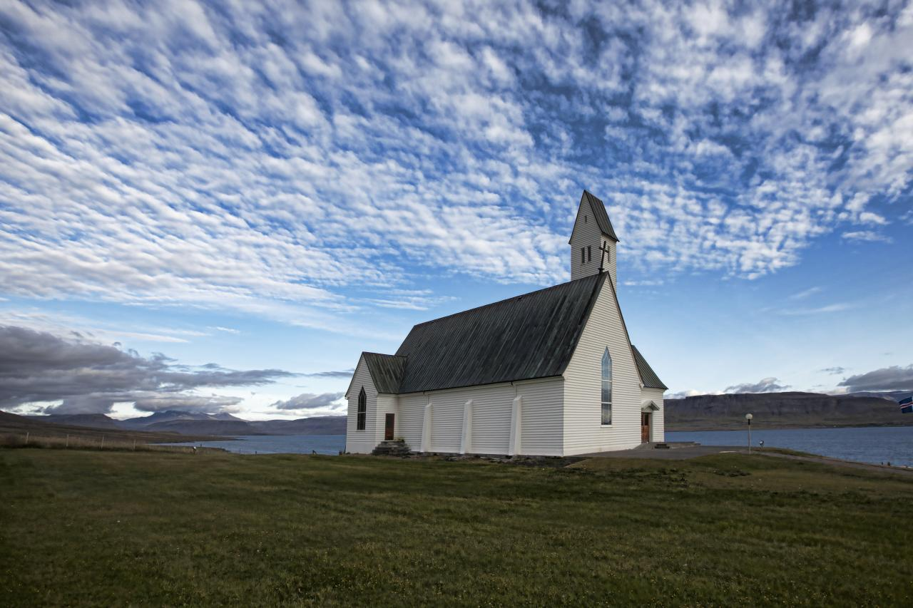 Iceland